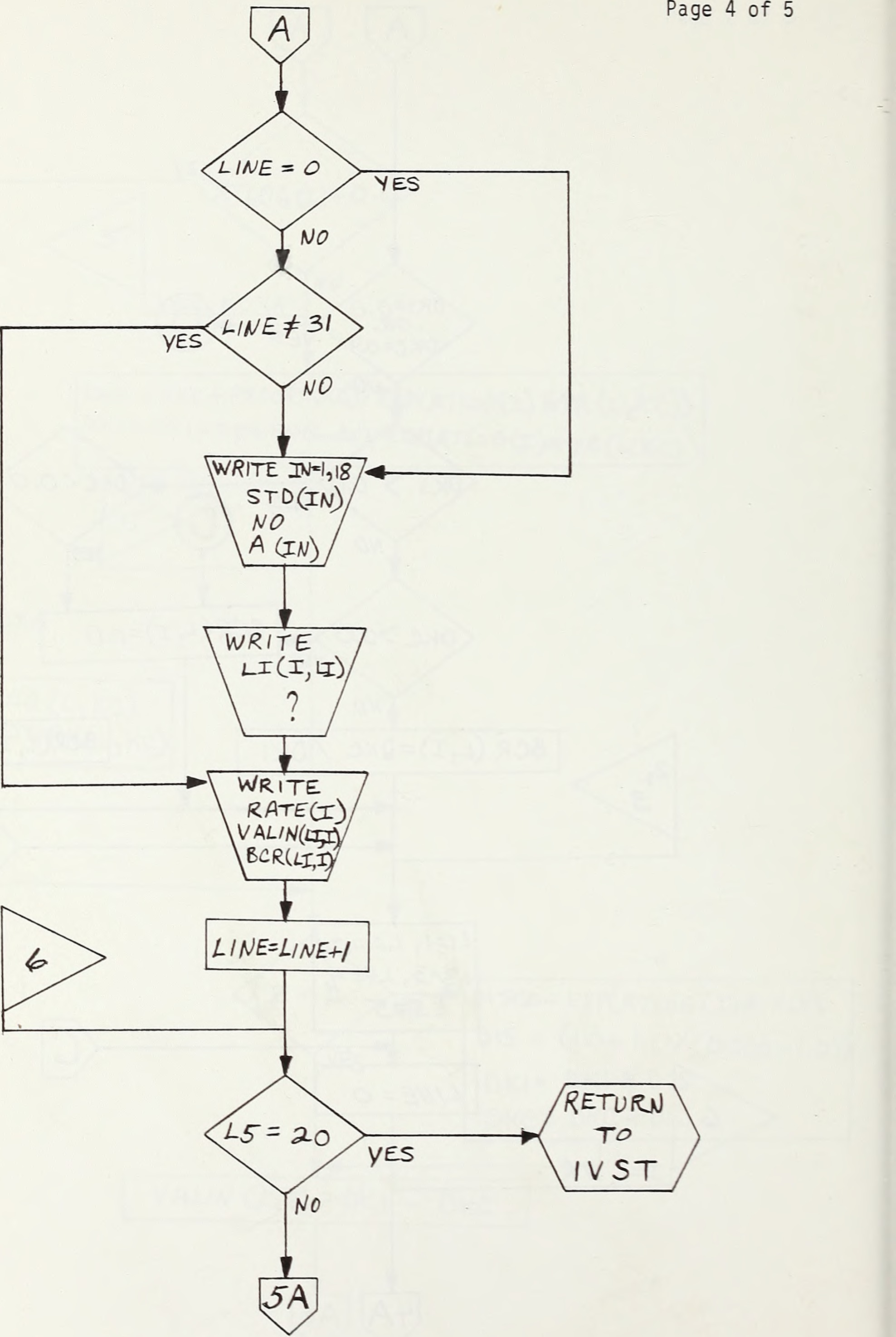 Title: A computer program for evaluating forestry opportunities under three investment criteria Year: 1969 (1960s) Authors: Chappelle, Daniel E Subjects: Forest management Computer programs; Forests and forestry Economic aspects Publisher: Portland, Or. : Pacific Northwest Forest and Range Experiment Station, U. S. Dept. of Agriculture Text Appearing Before Image: ' Text Appearing After Image: '